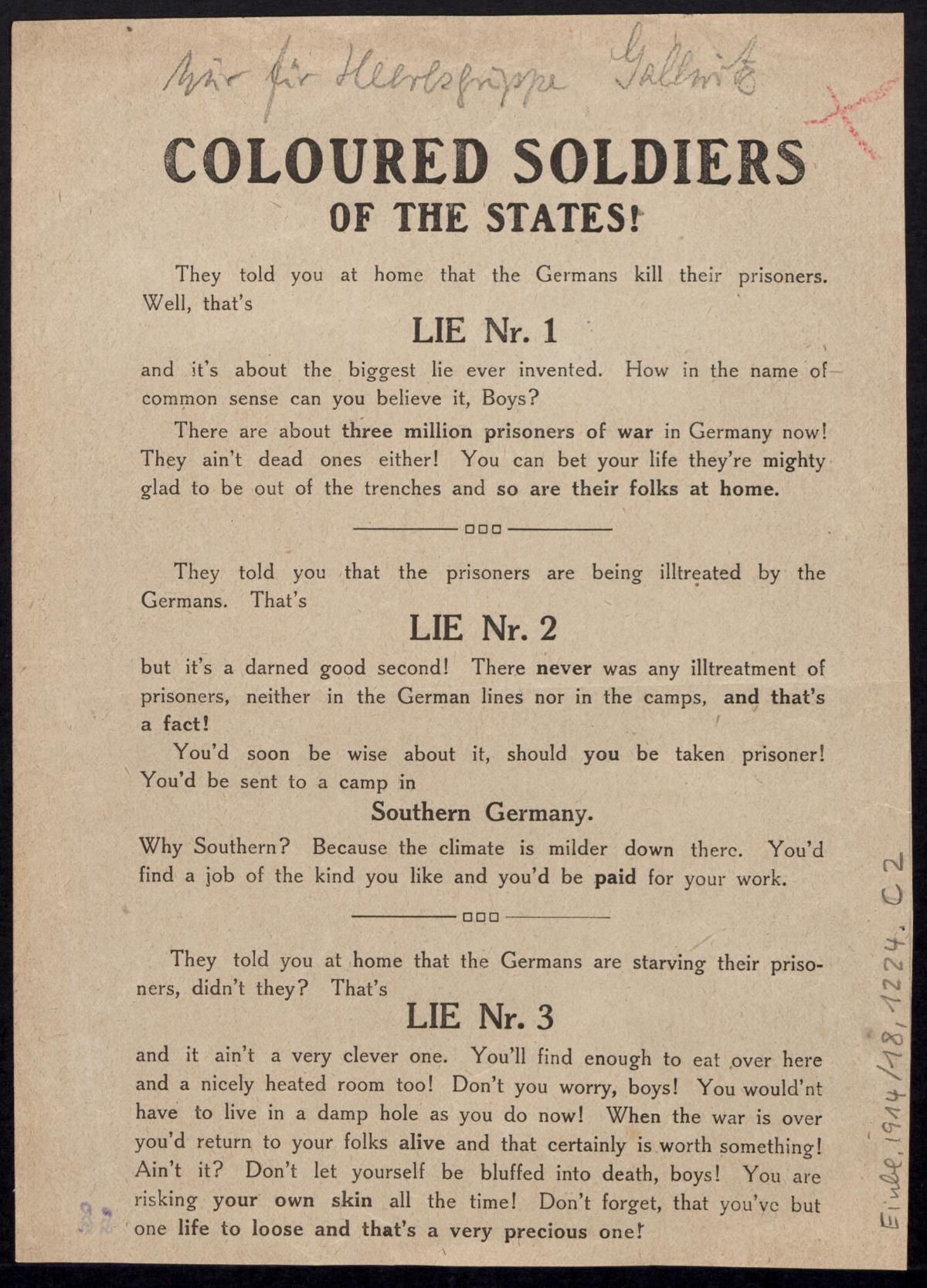 Coloured soldiers of the States! They told you at home that the Germans kill their prisoners . - Staatsbibliothek zu Berlin - Preußischer Kulturbesitz - Public Domain Mark